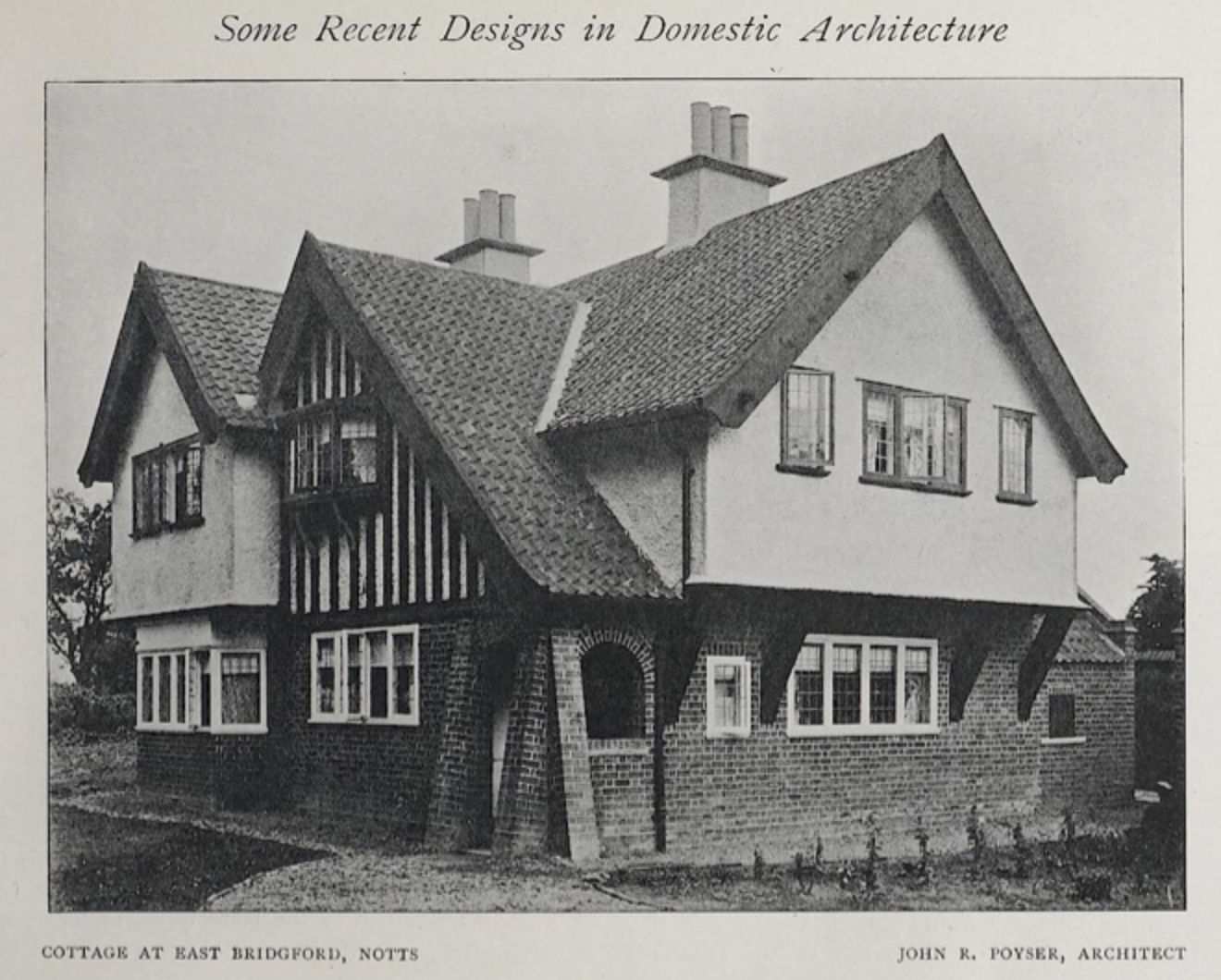 From Studio: Art International. Volume 36. 1906. Highclere, 51 Kneeton Road, East Bridgford, Nottingham. NG13 8PG